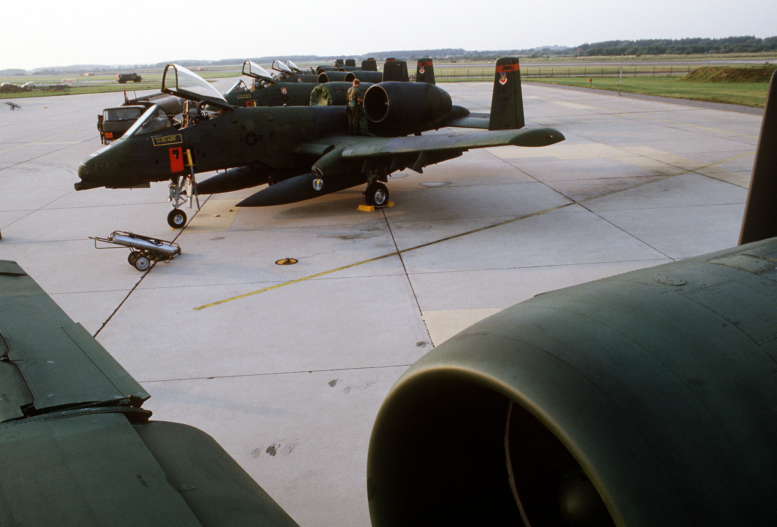 A left side view of A-10 Thunderbolt II aircraft on the flight line as ground crewman perform post-flight maintenance and rearm them during Reforger-Crested Cap I.